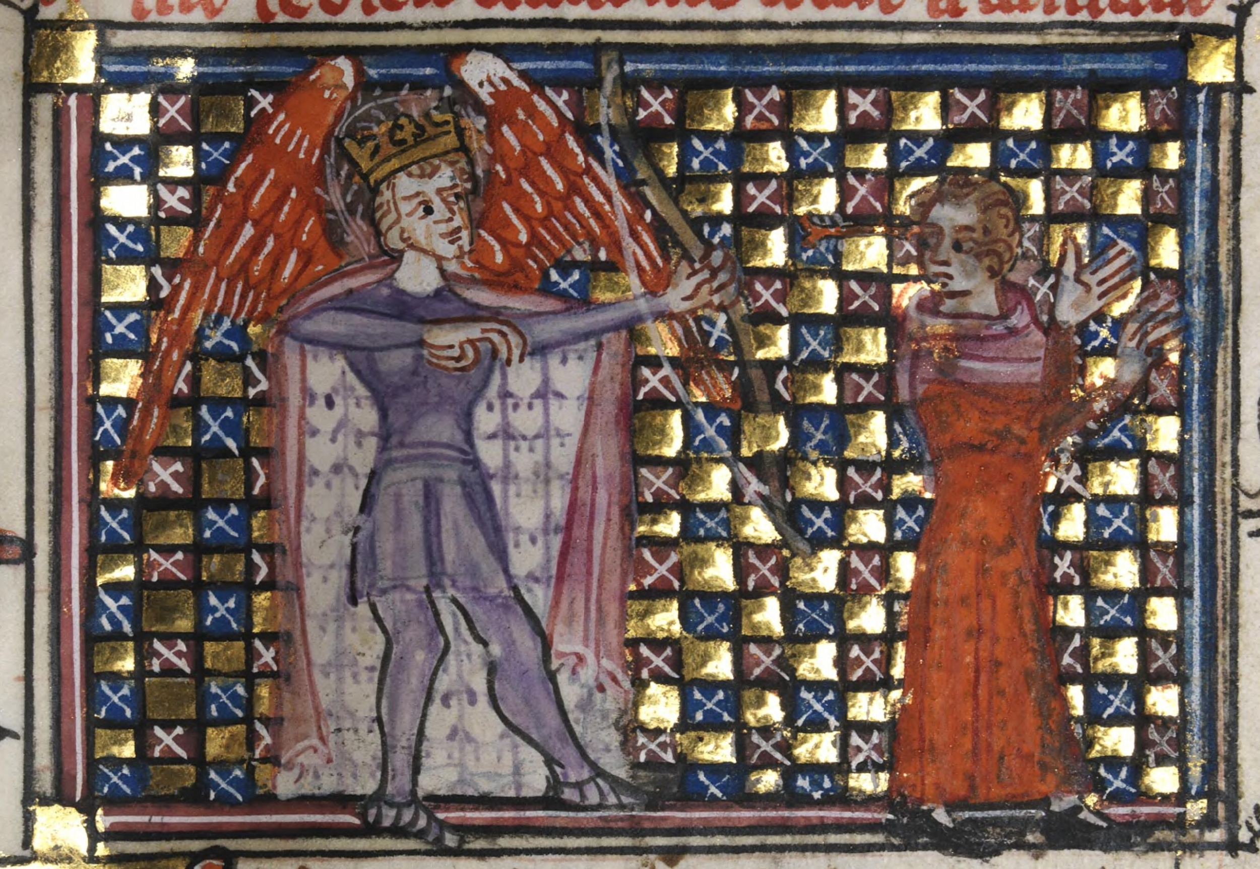 The Roman de la Rose manuscript contains one of the most popular romantic French poems of its time